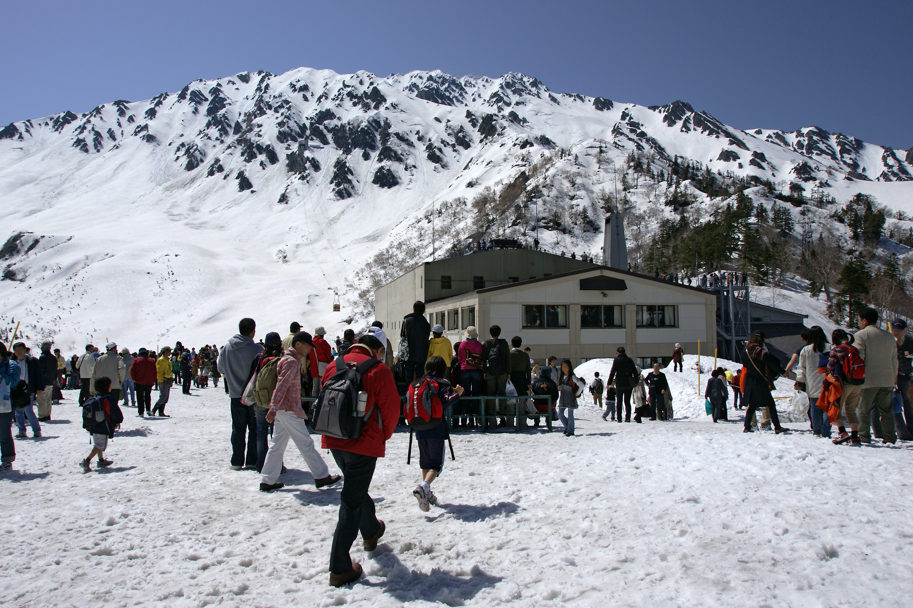 Mt. Tateyama peaks(3015m) from Kurobe-daira(1828m) in Toyama prefecture, Japan